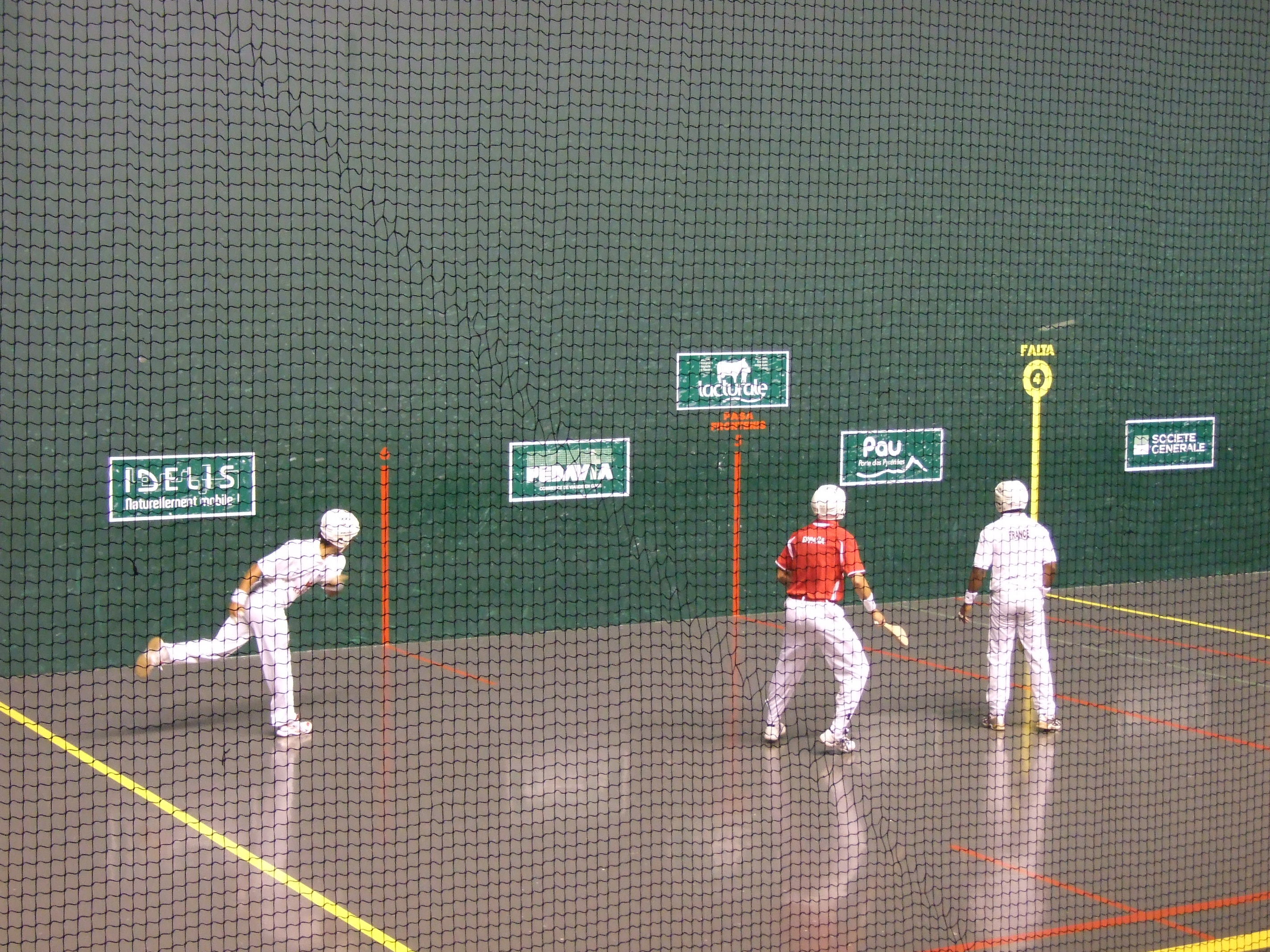 10-10-2010, Campeonato del Mundo de Pelota Vasca en Pau, paleta cuero en frontón de 36 metros. Caballero y Skufca vs. Fontano y Welmant, final.